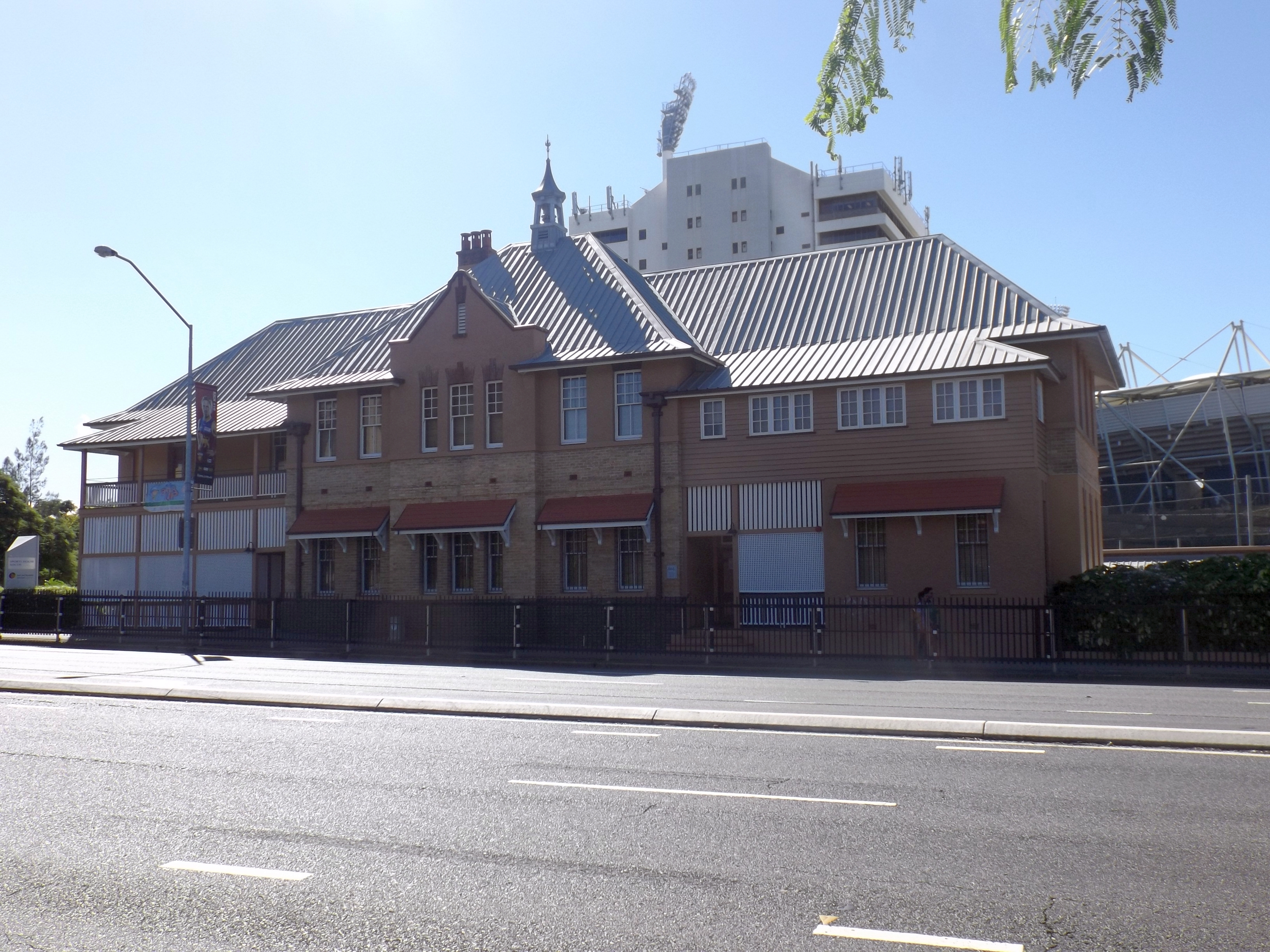 Photo of Main Road and Woolloongabba Police Station at Woolloongabba, Brisbane, Queensland, Australia.